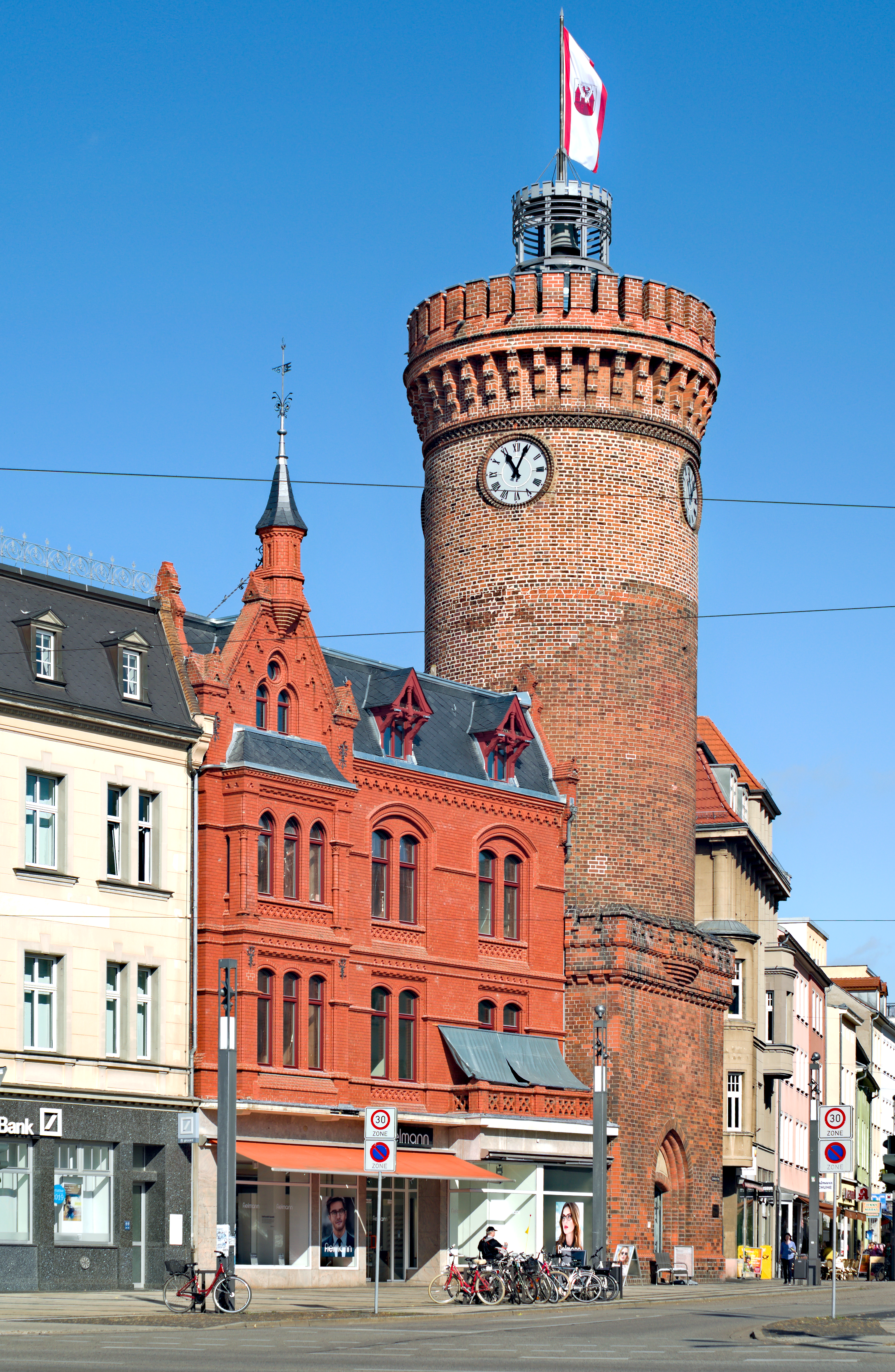 Cultural heritage monument Spremberger Turm in Cottbus-Mitte.